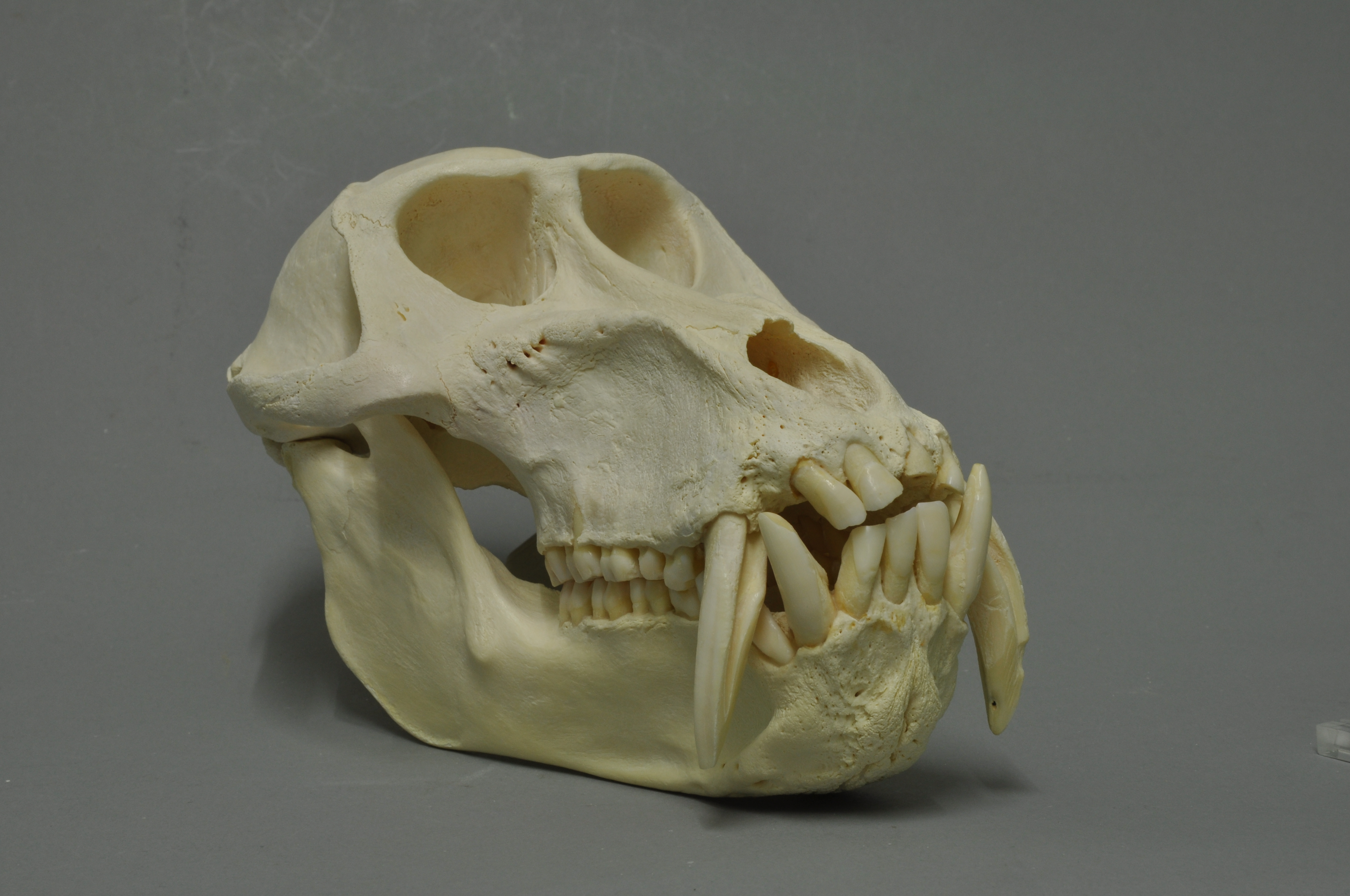 Drill Mandrillus leucophaeus , skull, Coll. Museum Wiesbaden